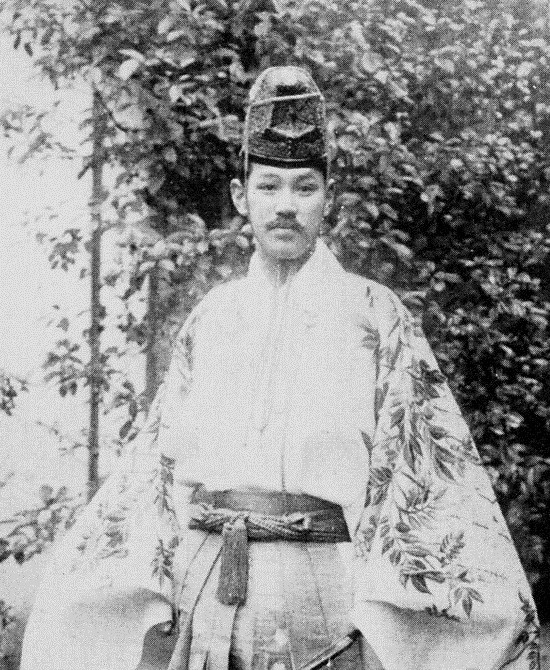 Nagakoto Kiyooka